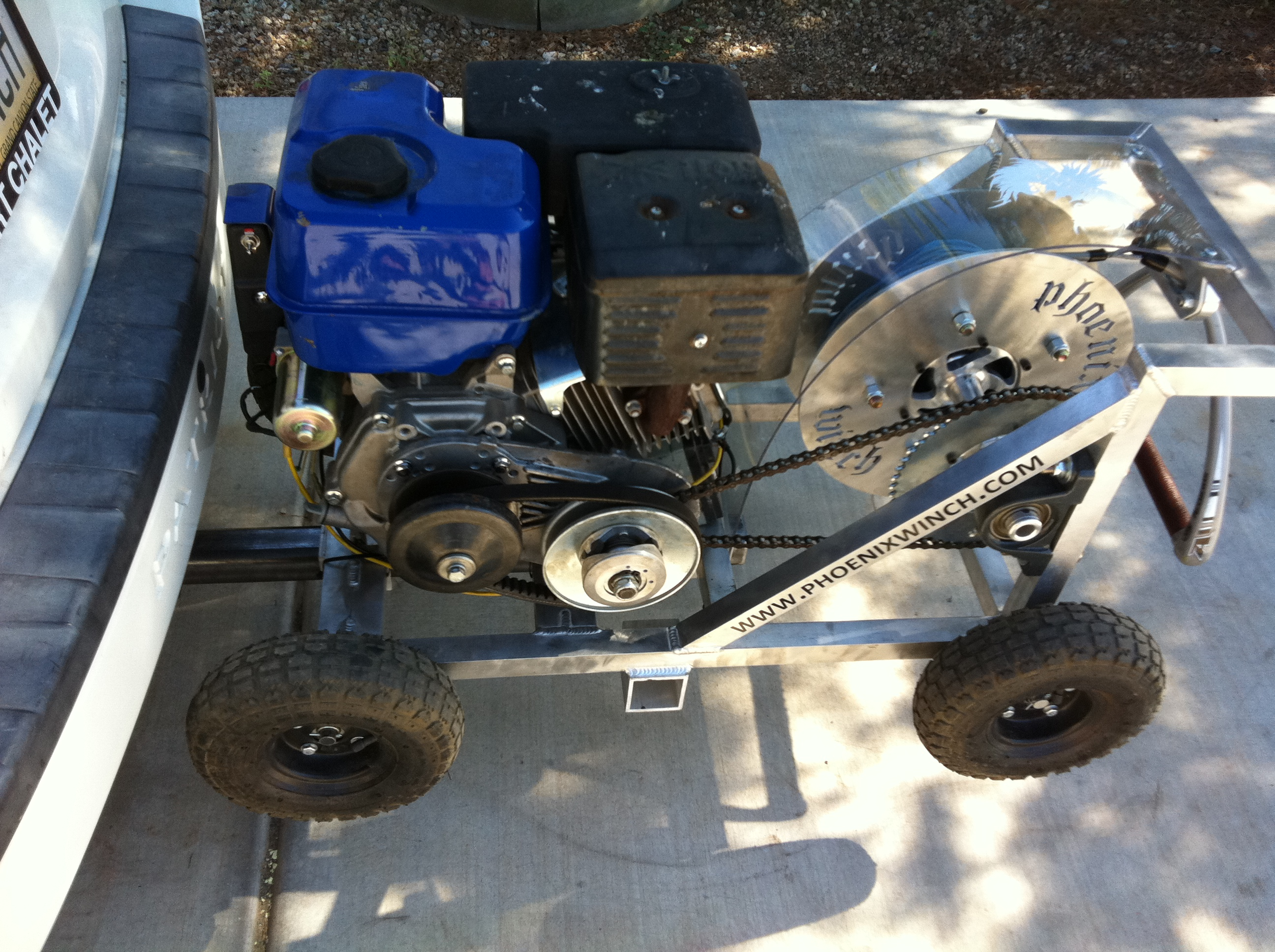 This is a picture I took of a wakeskate winch I built. The winch is designed to pull wakeboarders, tubers, skiers, snowboarders, kneeboarders, wakeskaters, and more in lieu of traditional methods.